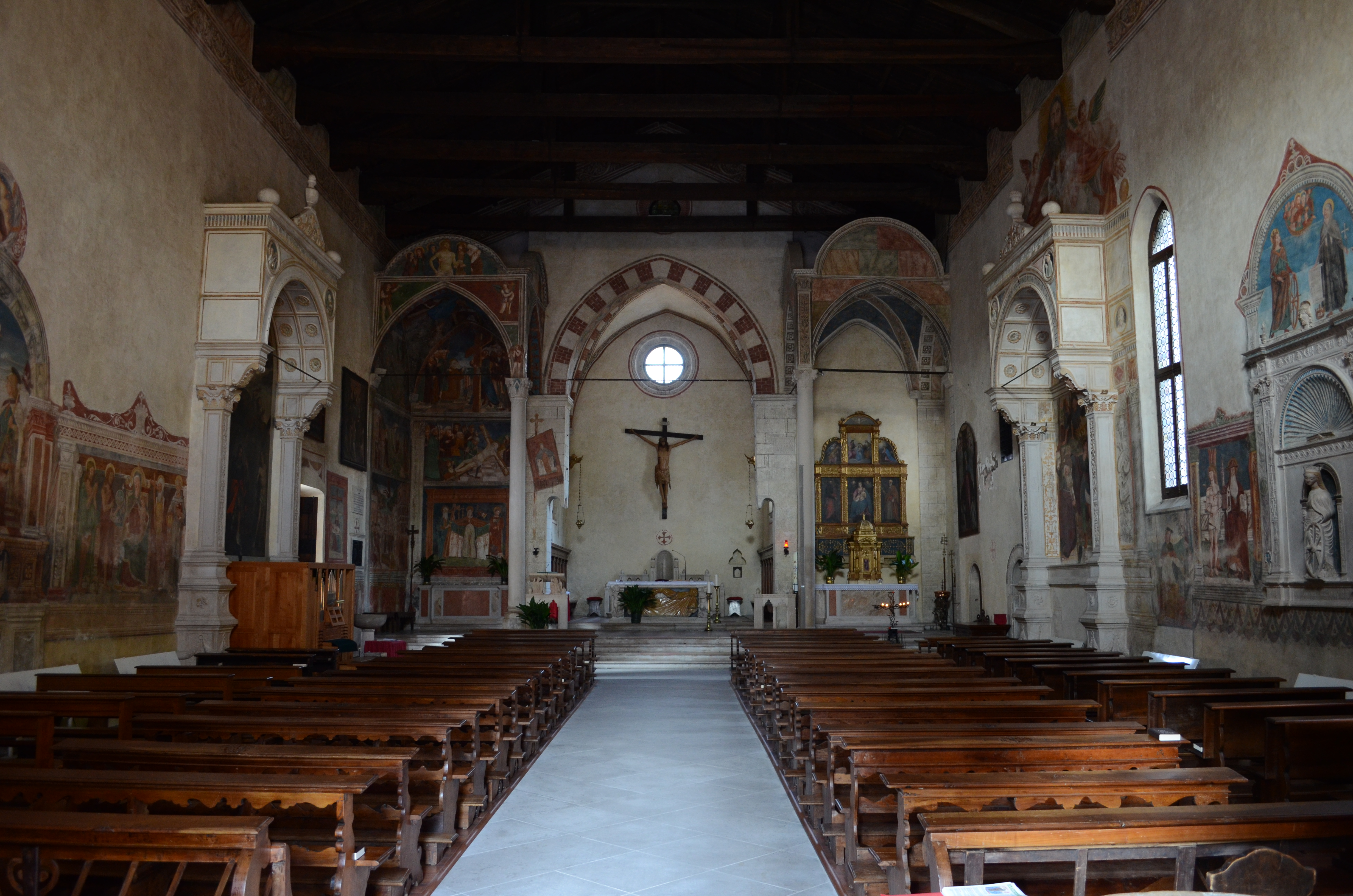 Interior of the church Pieve di Sant'Andrea di Bigonzo, Vittorio Veneto Italy